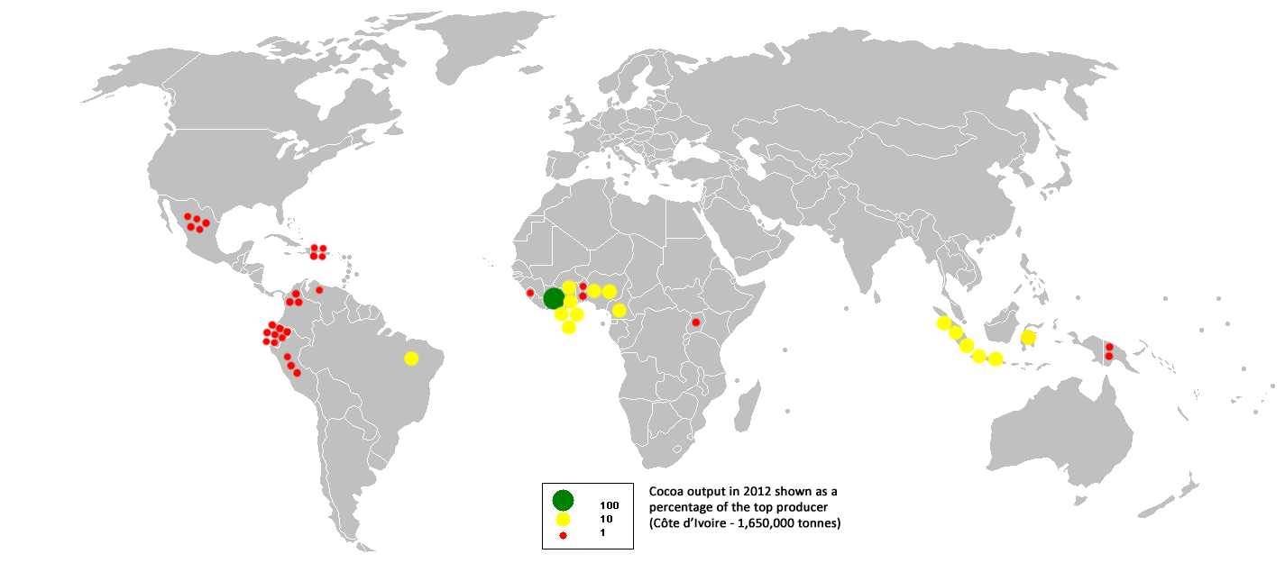 Most Cocoa production in Indonesia comes from Sulawesi, I just highlighted this in the map.